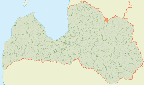 Location of Gaujiena Parish in Latvia